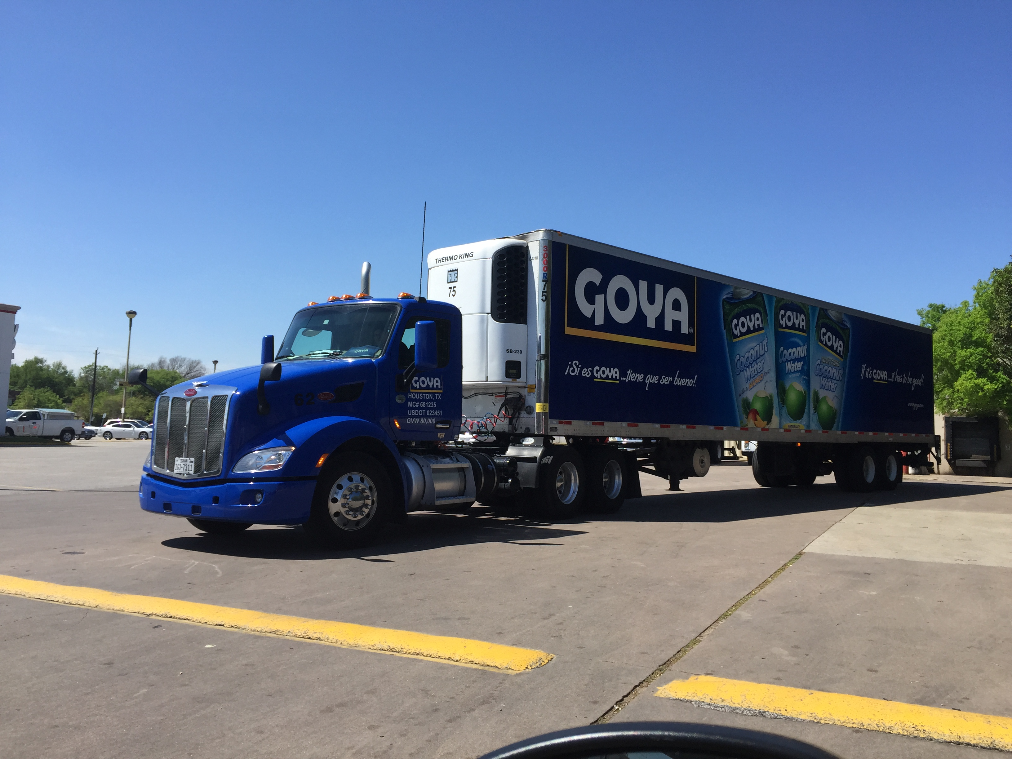 Goya Foods truck outside of the Fiesta supermarket on Bellaire Boulevard